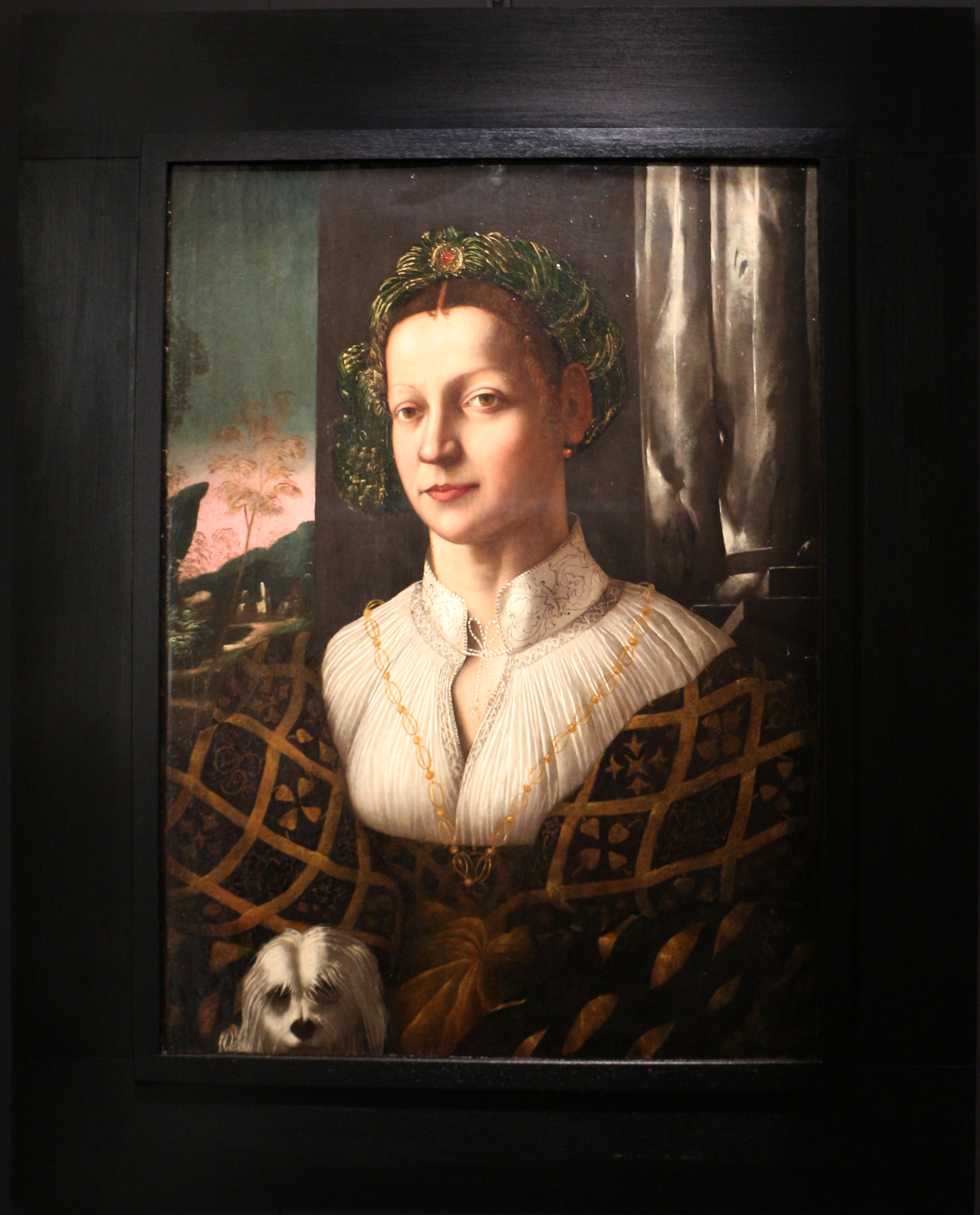 Courtesy of Altomani & Sons - Milano Pesaro